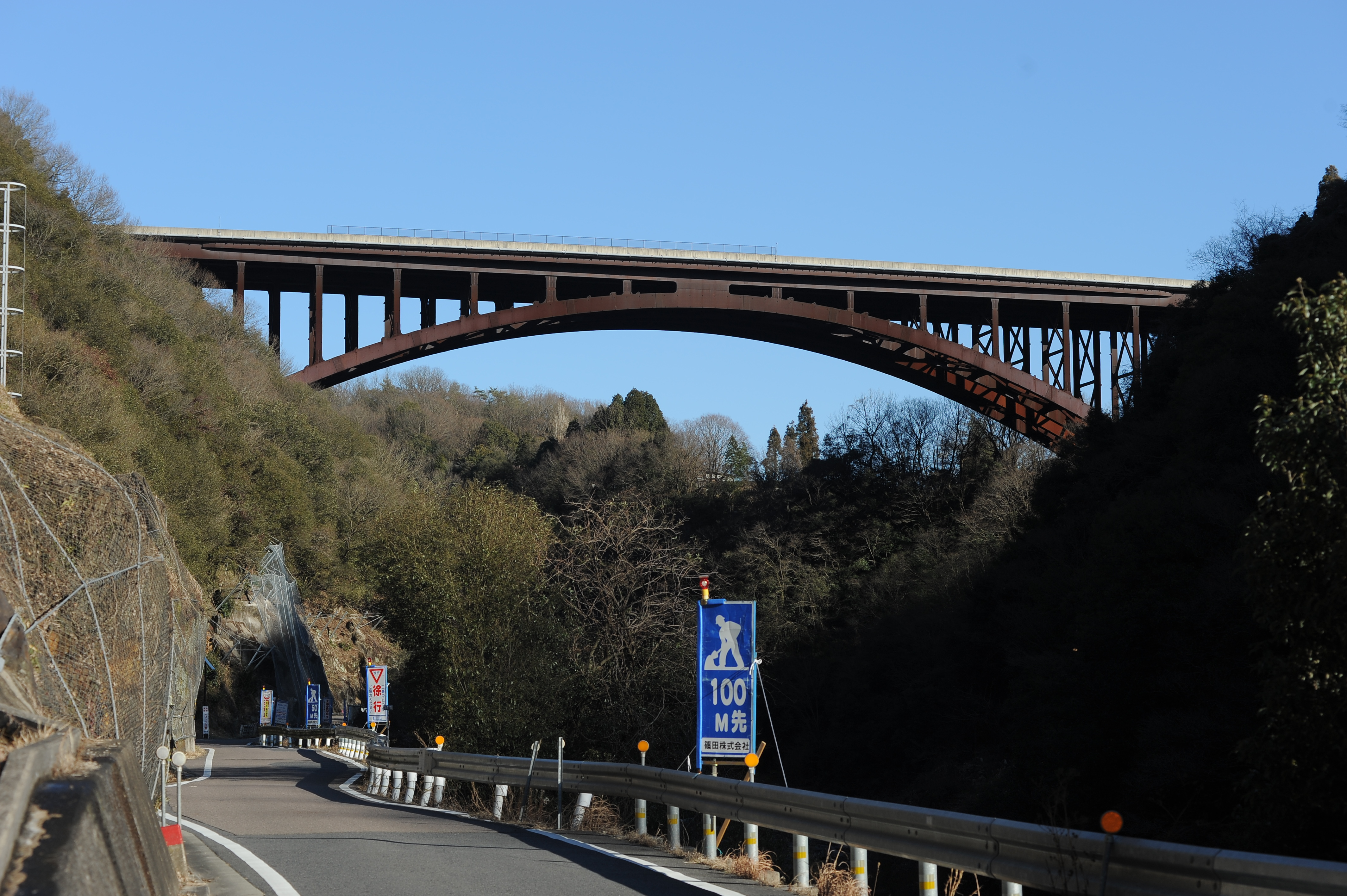 Tokigawa bridge (Tokai-Kanjo Expressway), Toki, Gifu